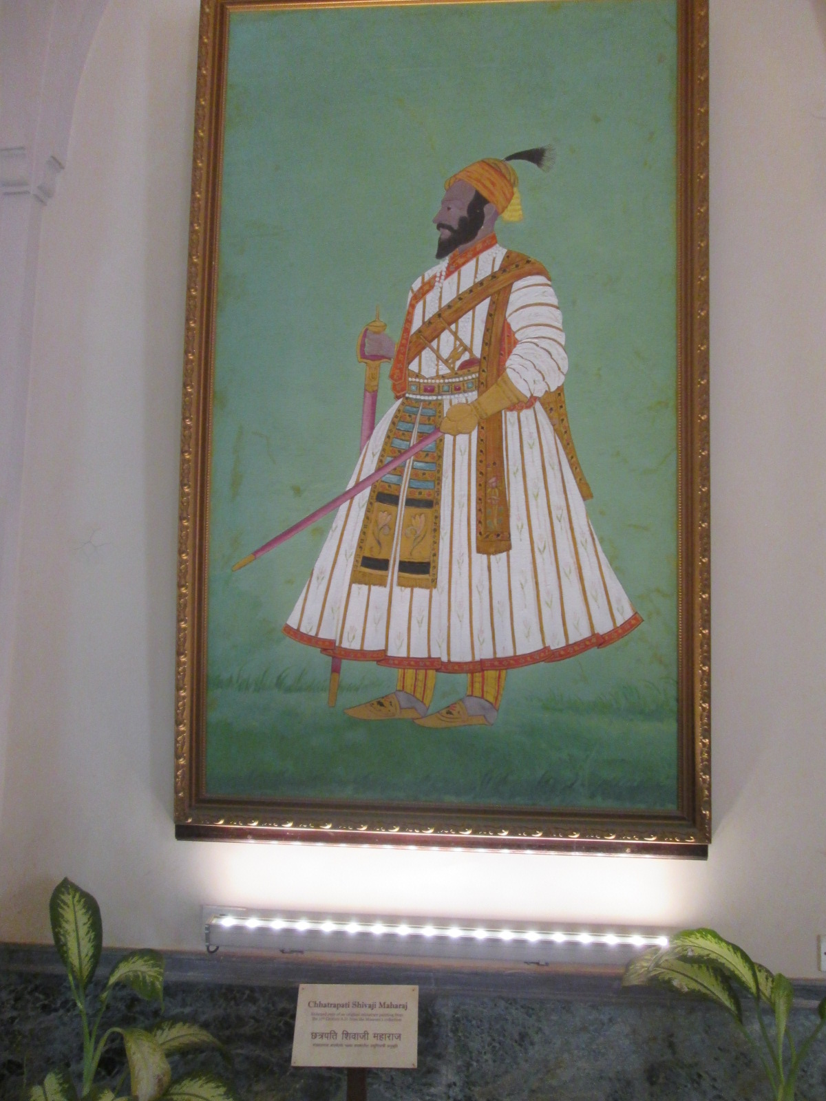 A portrait of Chhatrapati Sivaji at the Chhatrapati Shivaji Vastu Sangrahalay (fka Prince of Wales Museum). It is an enlarged version of the original miniature painting from 17th century CE India. The museum is located at Kala Ghoda, Fort, South Mumbai. Shivaji The Great was an Indian Emperor, Statesman, Patriot of the 17th century AD. Titles, styles, and honors: Kshatriya Kulawantas (chief of Kshatriya race) Sinhasanadheeswar (enthroned king) Maharajadhiraj (great king over all kings) Chhatrapati (lord of the parasol) Sivaji Raje Bhosale - founder and sovereign emperor of Maratha India, chief of Mahratta dominions, father of Indian Navy, commander-in-chief of the Mahratta forces, one of the greatest Hindu Emperors of India.